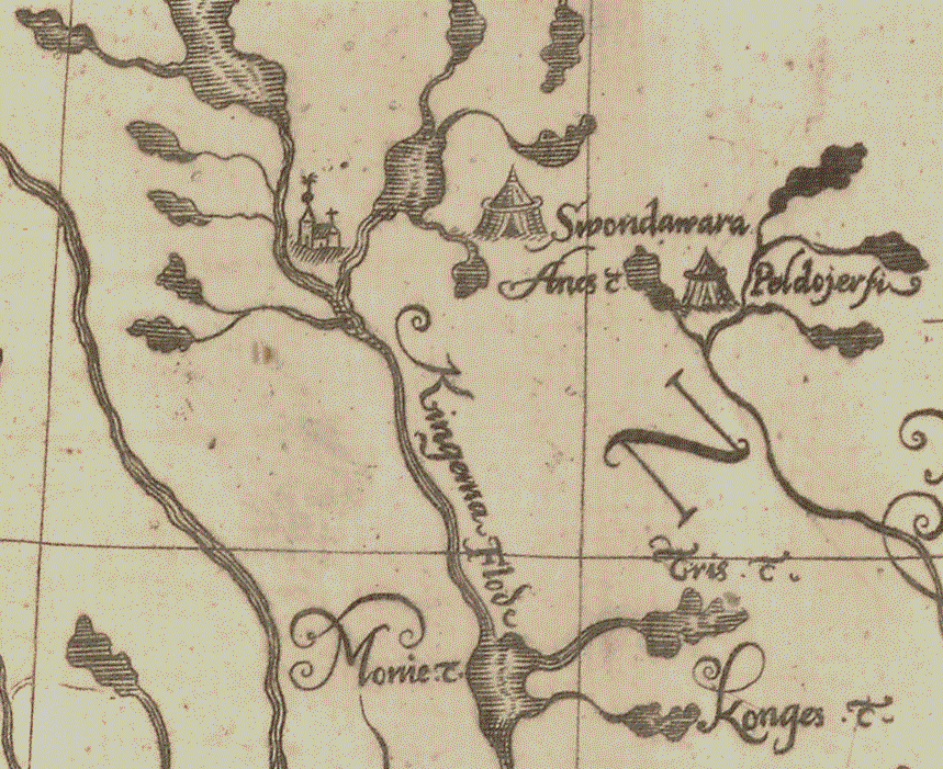 Detail from Anders Bures map of the northern countries, showing Rounala church by the river Könkämä ("Kingema Flod") in Torne lappmark.